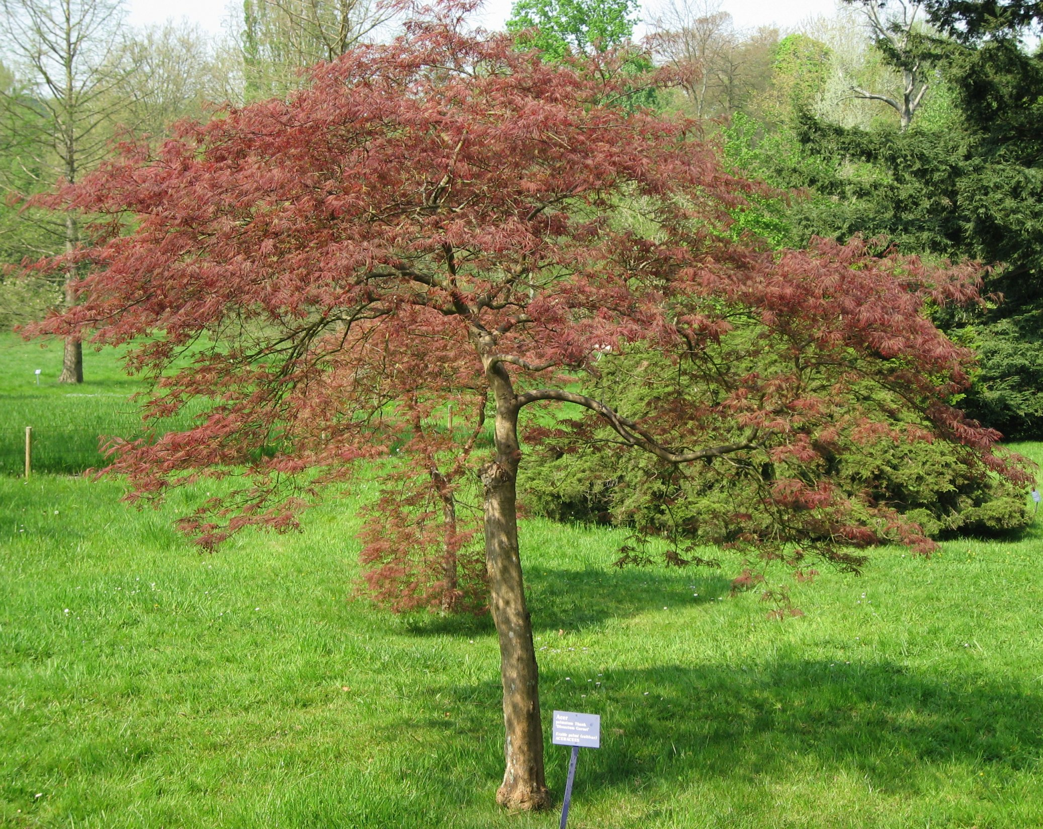 Acer palmatum 'Dissectum Garnet'